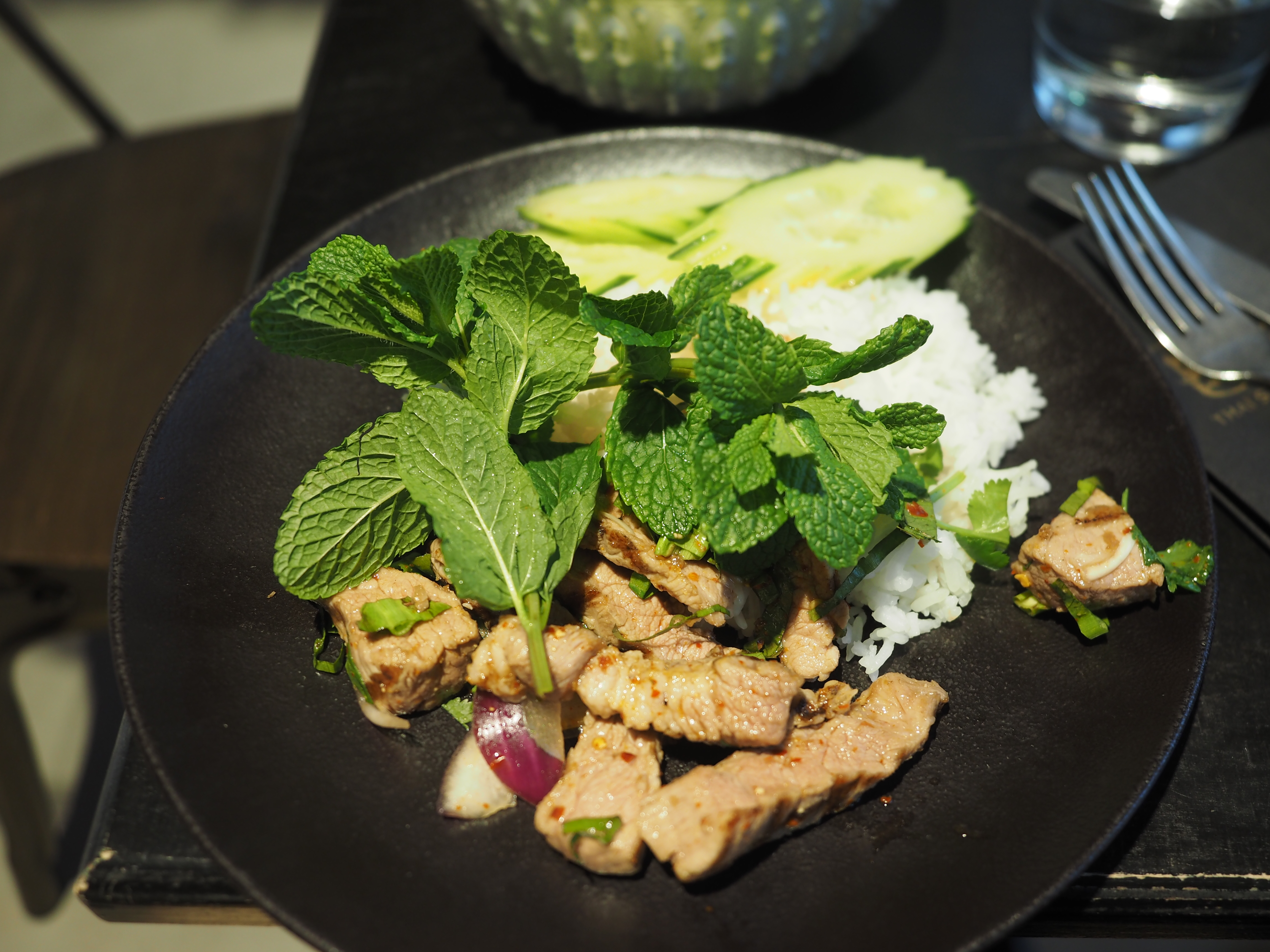 Nam tok kor moo yang, grilled sliced pork neck in spicy Isaan salad with roasted rice, chili and lime dressing, served at restaurant Bangkok 9 in Helsinki, Finland.